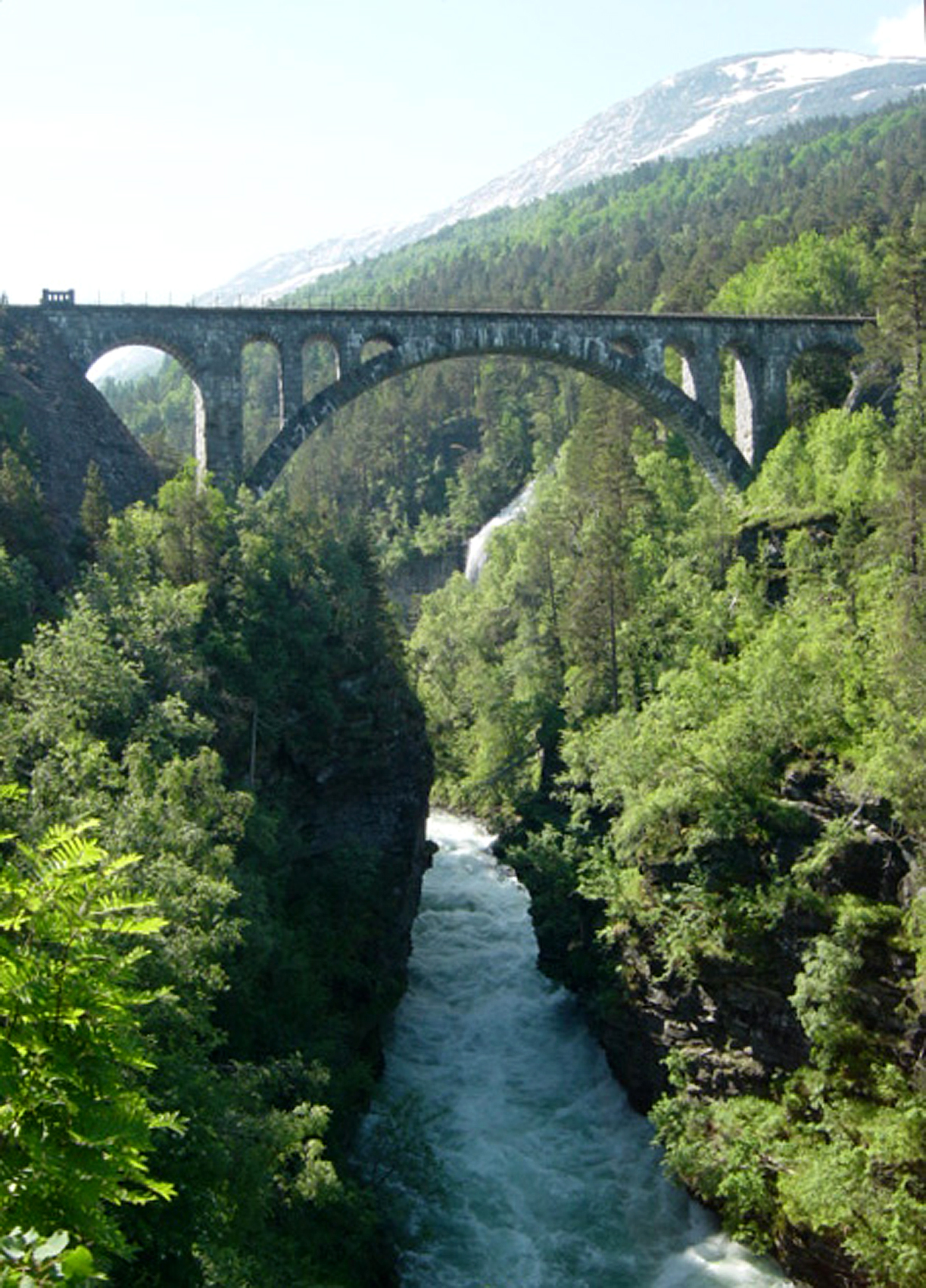 Rauma and the Kylling bru